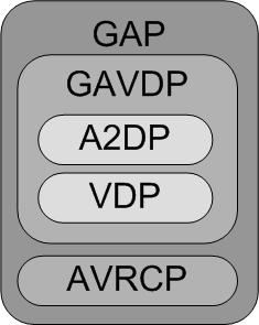 This picture show which bluetooth profiles A2DP is depending on.